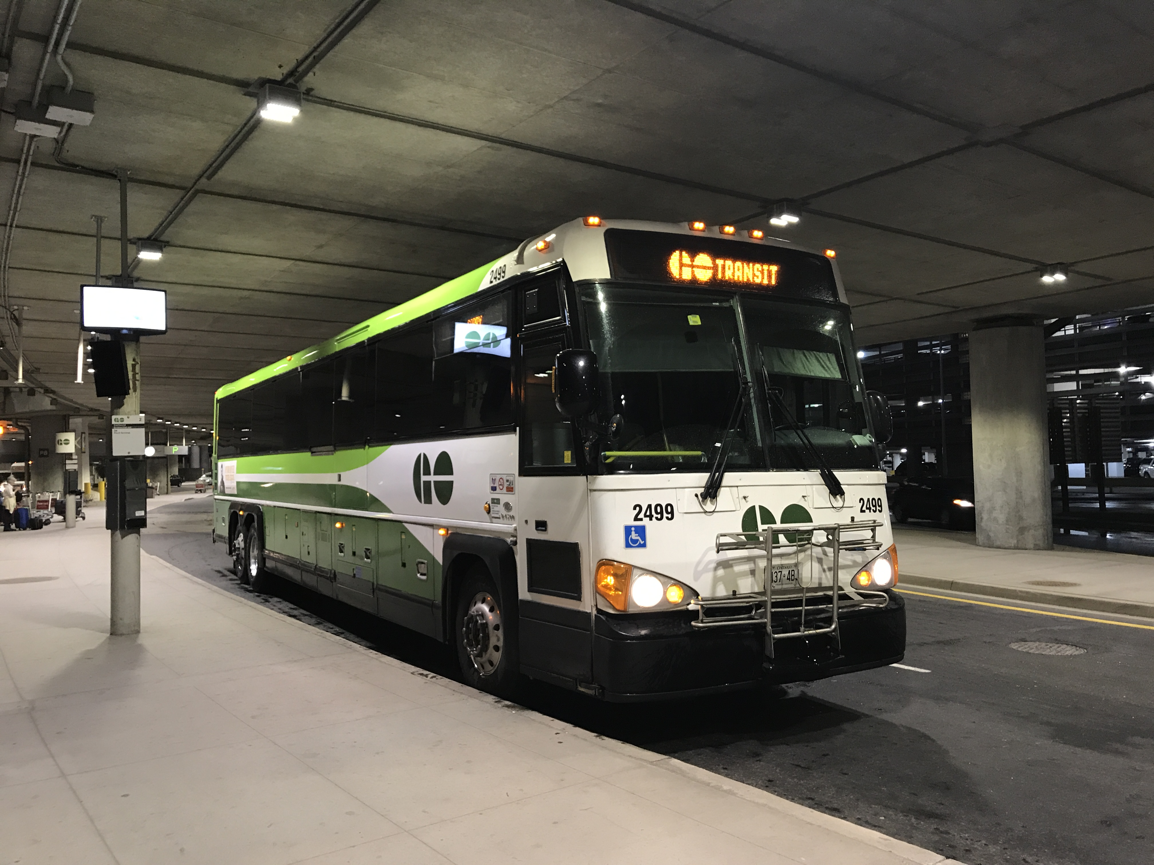 GO Transit bus at Toronto Pearson International Airport (Terminal 1)